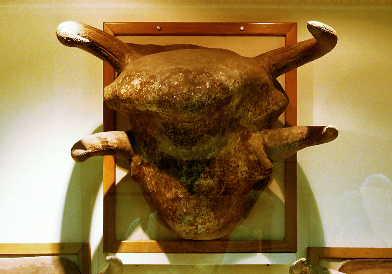 Głowa byka z Çatalhöyük (Turcja), neolit, obecnie w Muzeum Cywilizacji Anatolijskich w Ankarze; Bull head from Çatalhöyük (Turkey), neolithic, today in Museum of Anatolian Civilizations in Ankara